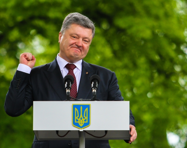 President of Ukraine Petro Poroshenko during a speech in Poltava on the occasion of the unveiling of the monument to Ivan Mazepa on May 7, 2016.